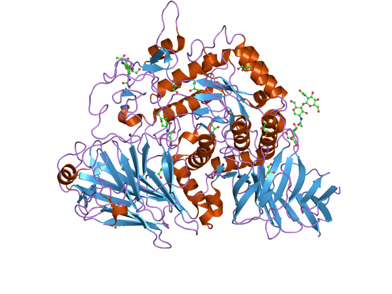 Cartoon representation of the molecular structure of protein registered with 2qly code.